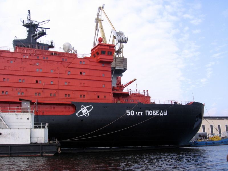 The russian nuclear powered icebreaker Nuclear Ship "50 Years Since Victory" (50 Let Pobedy).